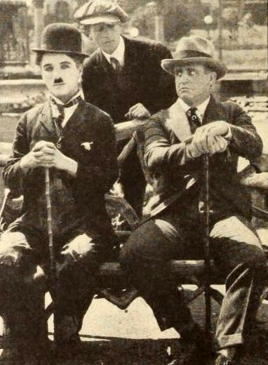 Still from the American silent film The Idle Class (1921) with Charlie Chaplin and Mack Swain, page 74 November 1921 Photoplay.